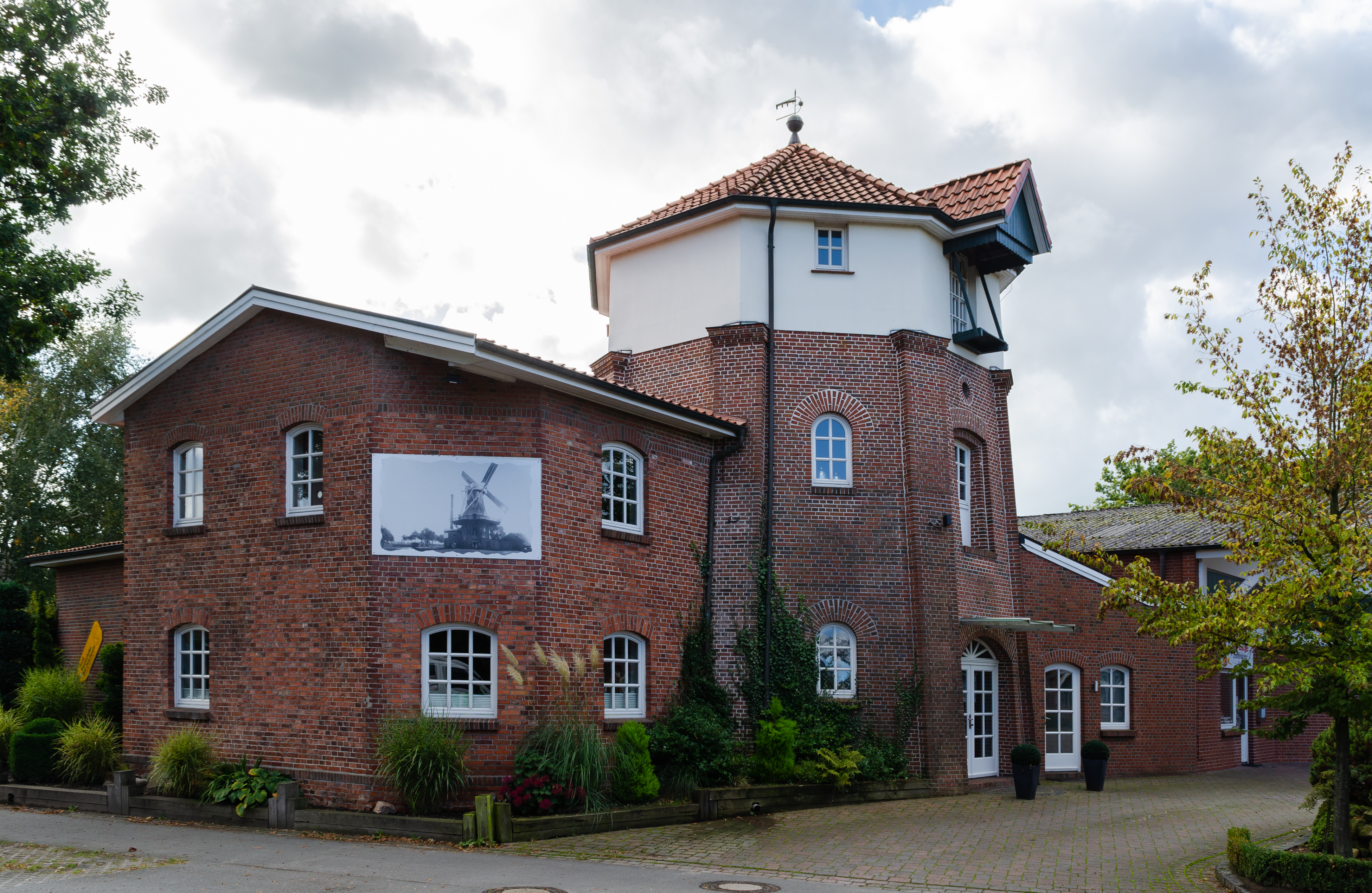 Wiefelstede (Lower Saxony, Germany) – district Bokel – former windmill